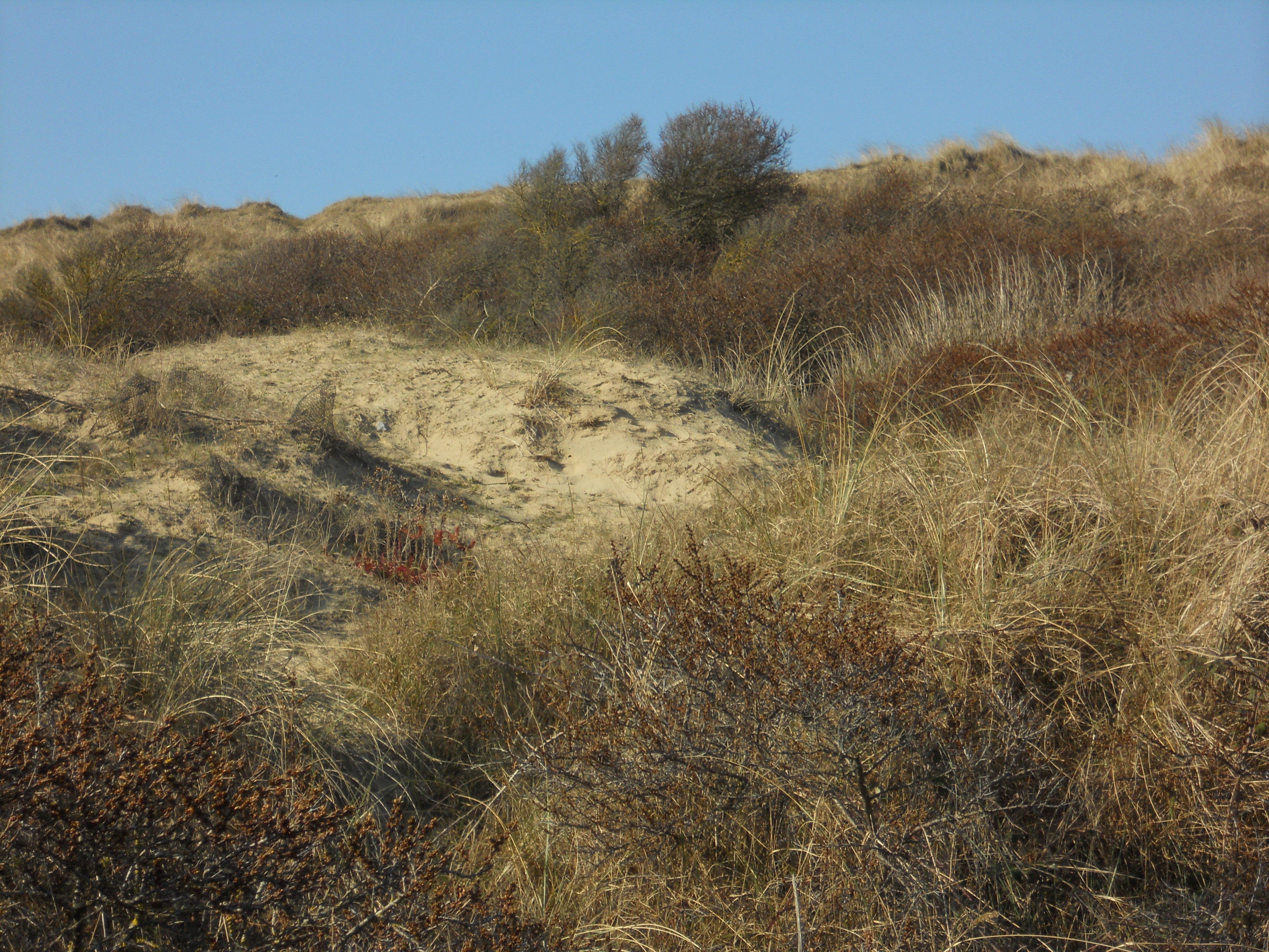 The Sand in the Ecault Dunes